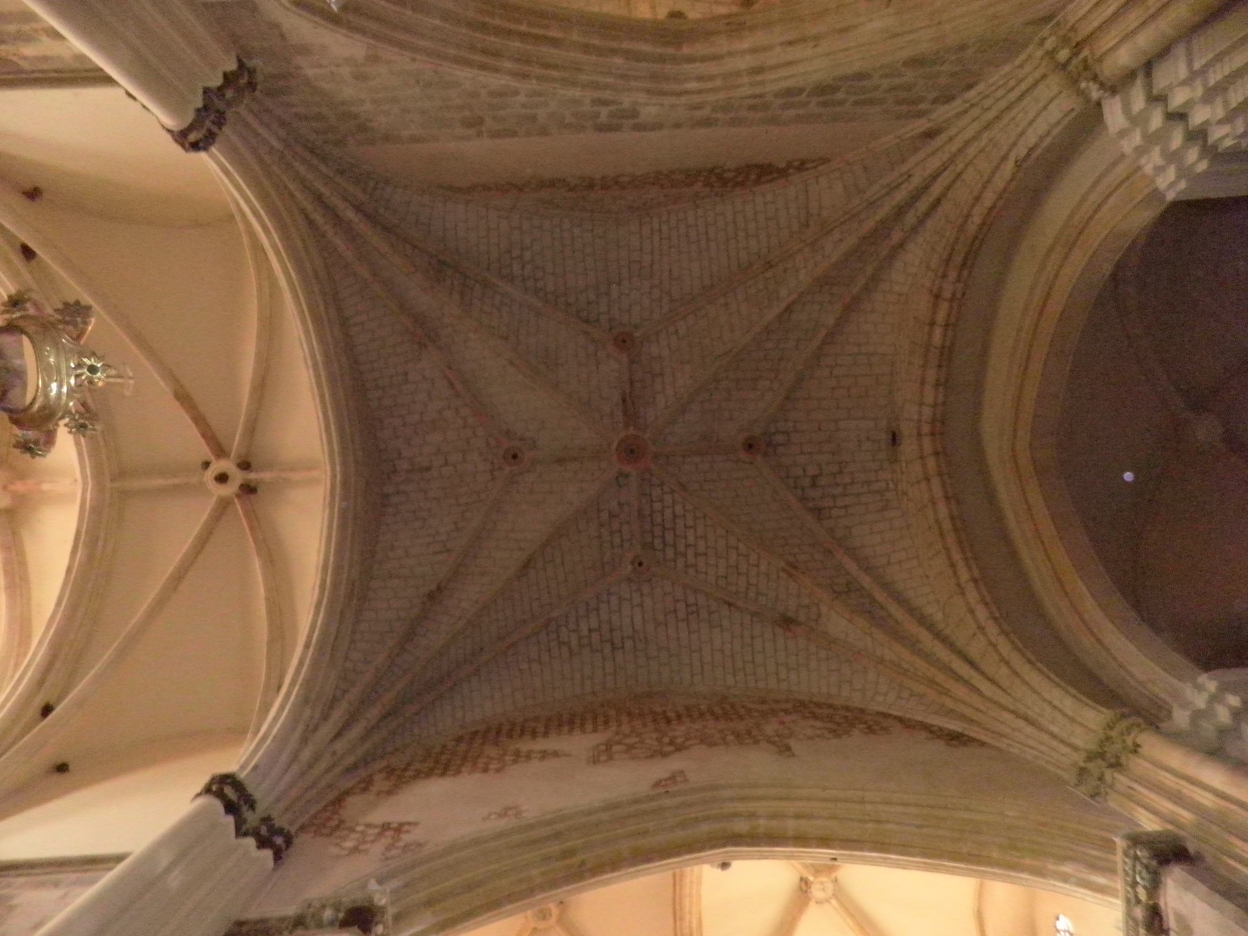 Transept of church of Santa María la Real de Nieva, Segovia Province, Spain.